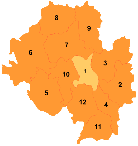 Dali Subdivisions map